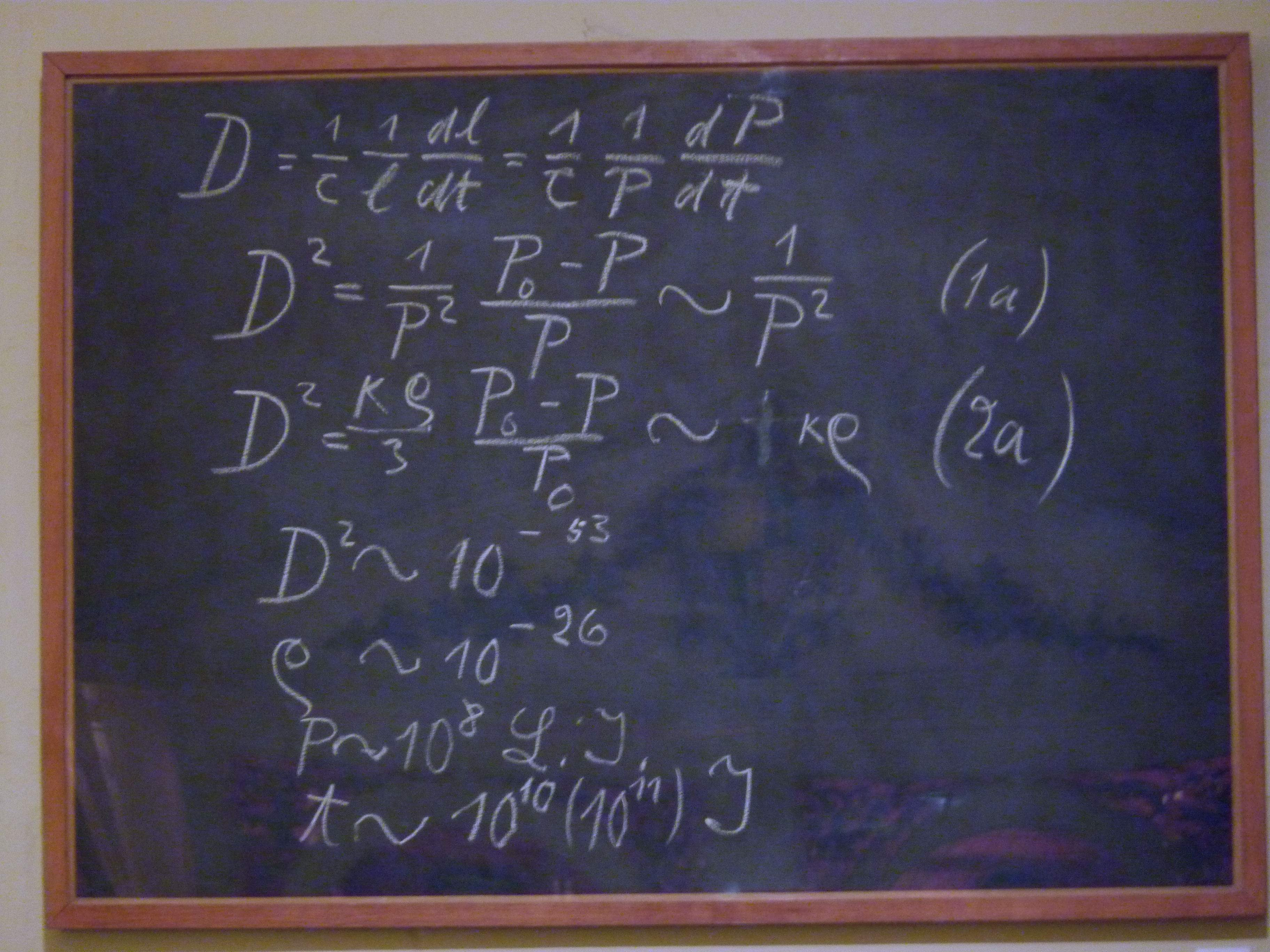 A blackboard used by Albert Einstein in a 1931 lecture in Oxford. The last three lines give numerical values for the density (ρ), radius (P), and age of the universe. The blackboard is on permanent display in the Museum of the History of Science, Oxford